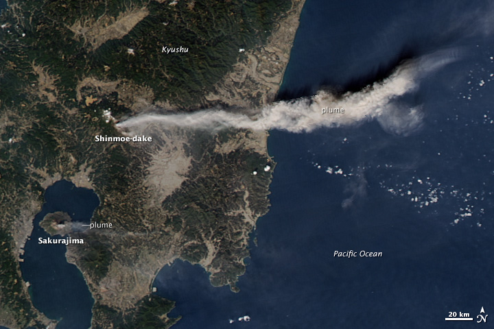 Satellite picture of Mount Shinmoe (Shinmoe-dake) in Mount Kirishima, Japan.